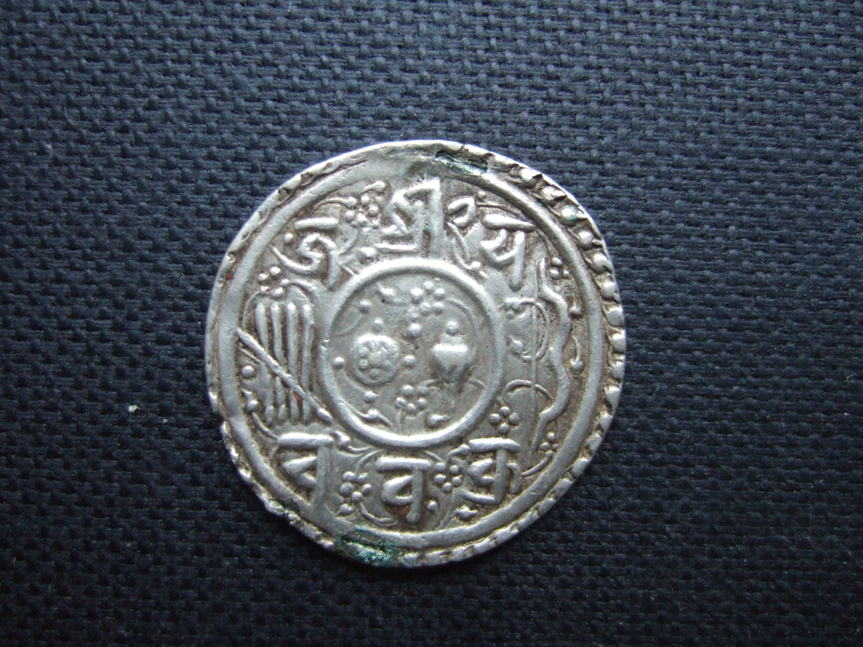 Silver Mohar of Prakash Malla of Kathmandu (obverse)